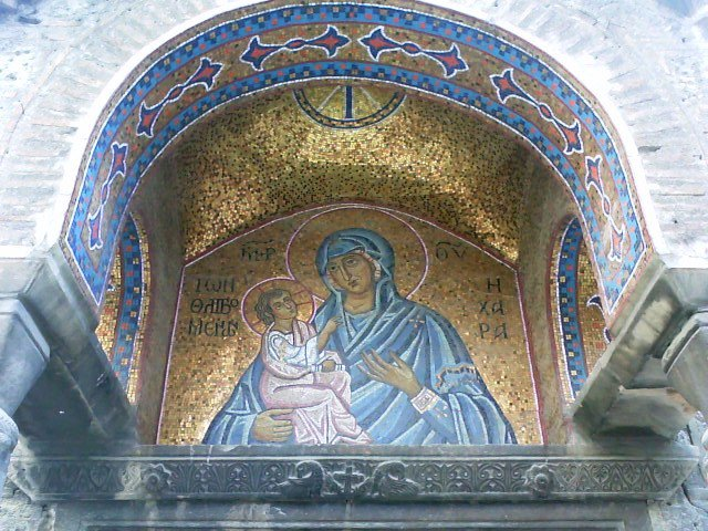 Mosaic of Madonna and Child in the south portico of the Kapnikarea Monastery in Athens, Greece.